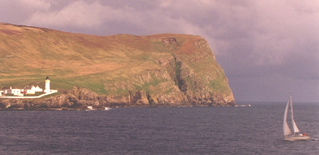 Kirkabister Ness Lighthouse on the island of Bressay, Shetland. The photo was taken from the deck of the Aberdeen ferry.